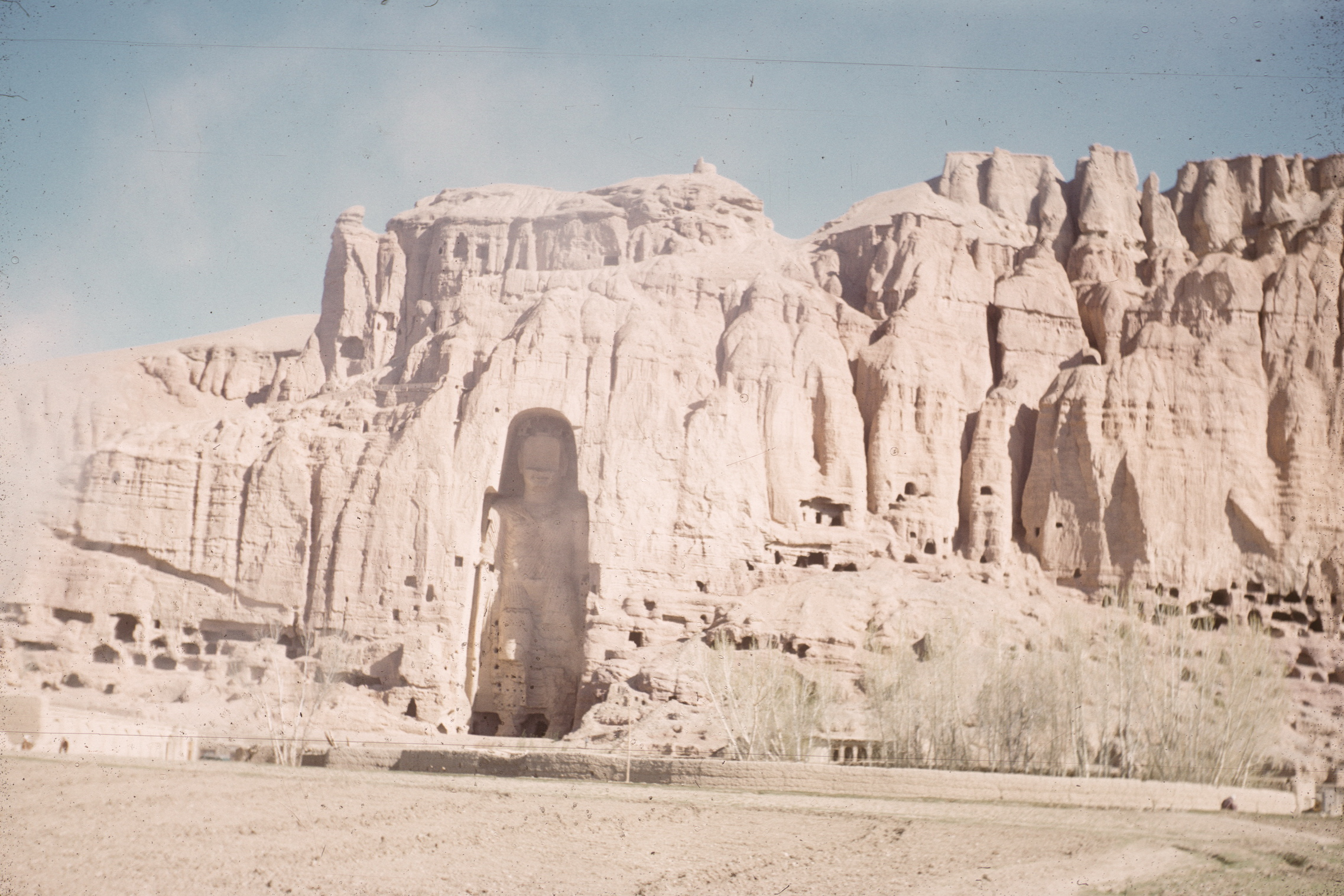 The Buddhas of Bamyan.